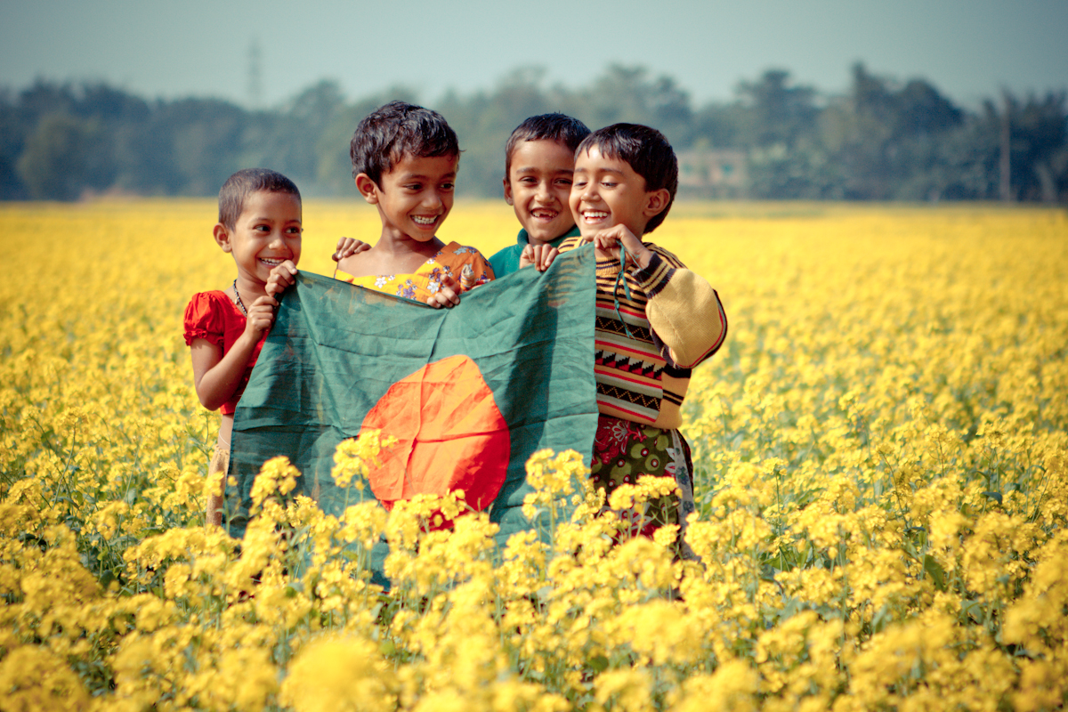 kids are holding their national flag on yellow field.